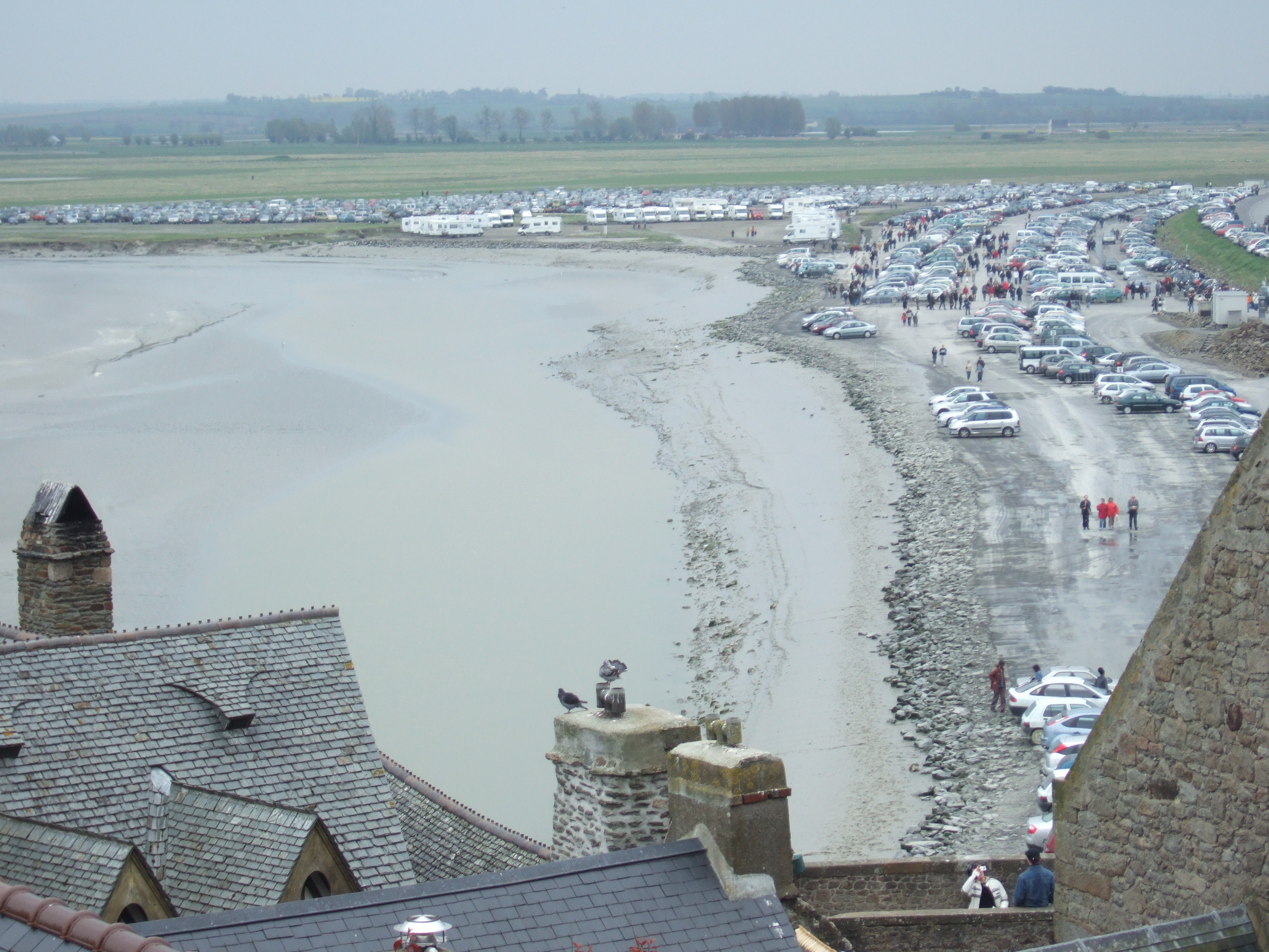 The causeway linking Mont Saint-Michel to the mainland, which has caused a massive build up of mud around the area. Taken by me.